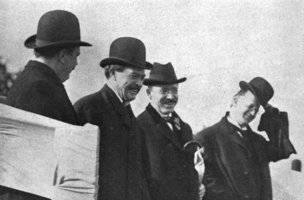 Evanston, Illinois, mayor John Barker (left), Chicago mayor Edward Fitzsimmons Dunne (second from left), dean of the Northwestern liberal arts college Thomas Holgate, and Northwestern business manager William A. Dyche at the dedication of the new Northwestern Field in Evanston on October 14, 1905 before the start of a game between Northwestern and Beloit College. Northwestern won the game 18–2.